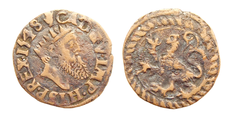 Low Countries, copper coin "korte", struck under Emperor Charles V in Antwerp 1548.